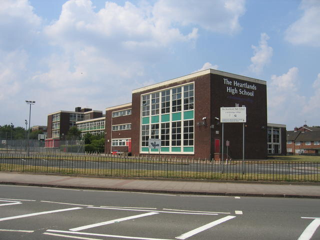 The Heartlands High School. Seen from Great Francis Street.